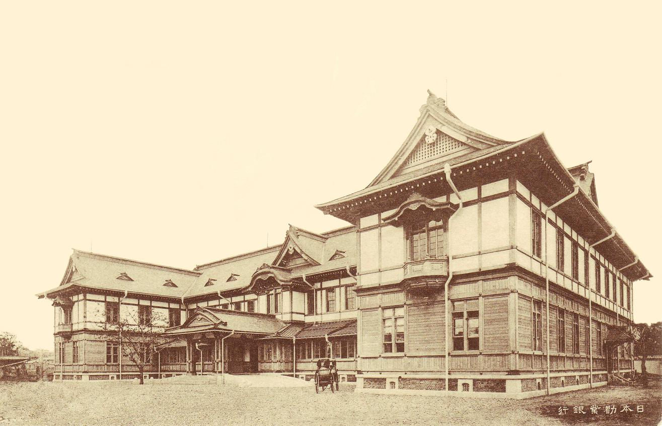 Head office of the Nippon Kangyo Bank, Ltd. in Uchisaiwaicho, Tokyo, Japan (1899-1926). The building was designed by Yorinaka Tsumaki (1859-1916) and completed in 1899 by Okura Doboku Gumi. 日本勧業銀行（東京市麹町区内幸町）建物は妻木頼黄設計、大倉土木組施工、1899年完成。